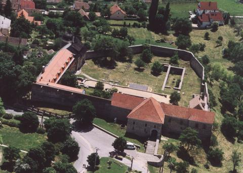 Pécsvárad - benedecitian abbey, Hungary, aerialphotography